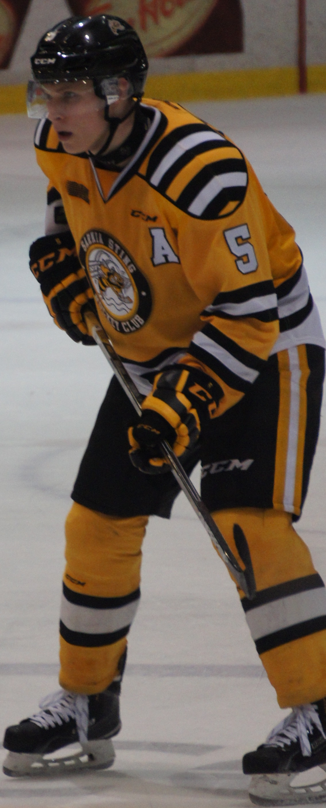 Jakob Chychrun defenceman for the Sarnia Sting. Taken December 12, 2015 at the Sarnia Sports & Entertainment Centre